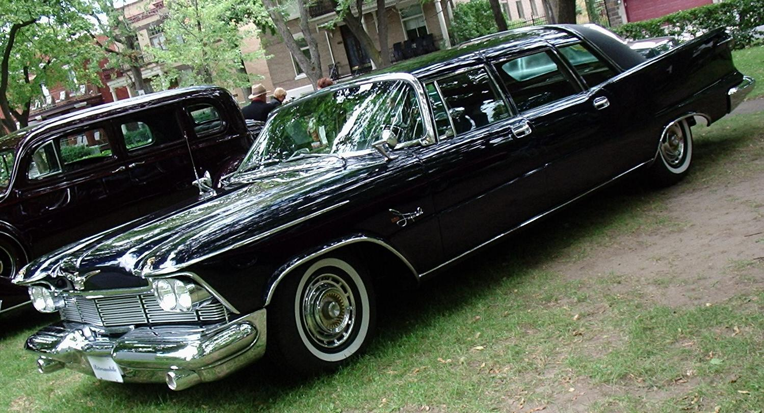 1958 Imperial Crown Ghia photographed in Montreal, Quebec, Canada at Déjuner sur l'herbe 2010.